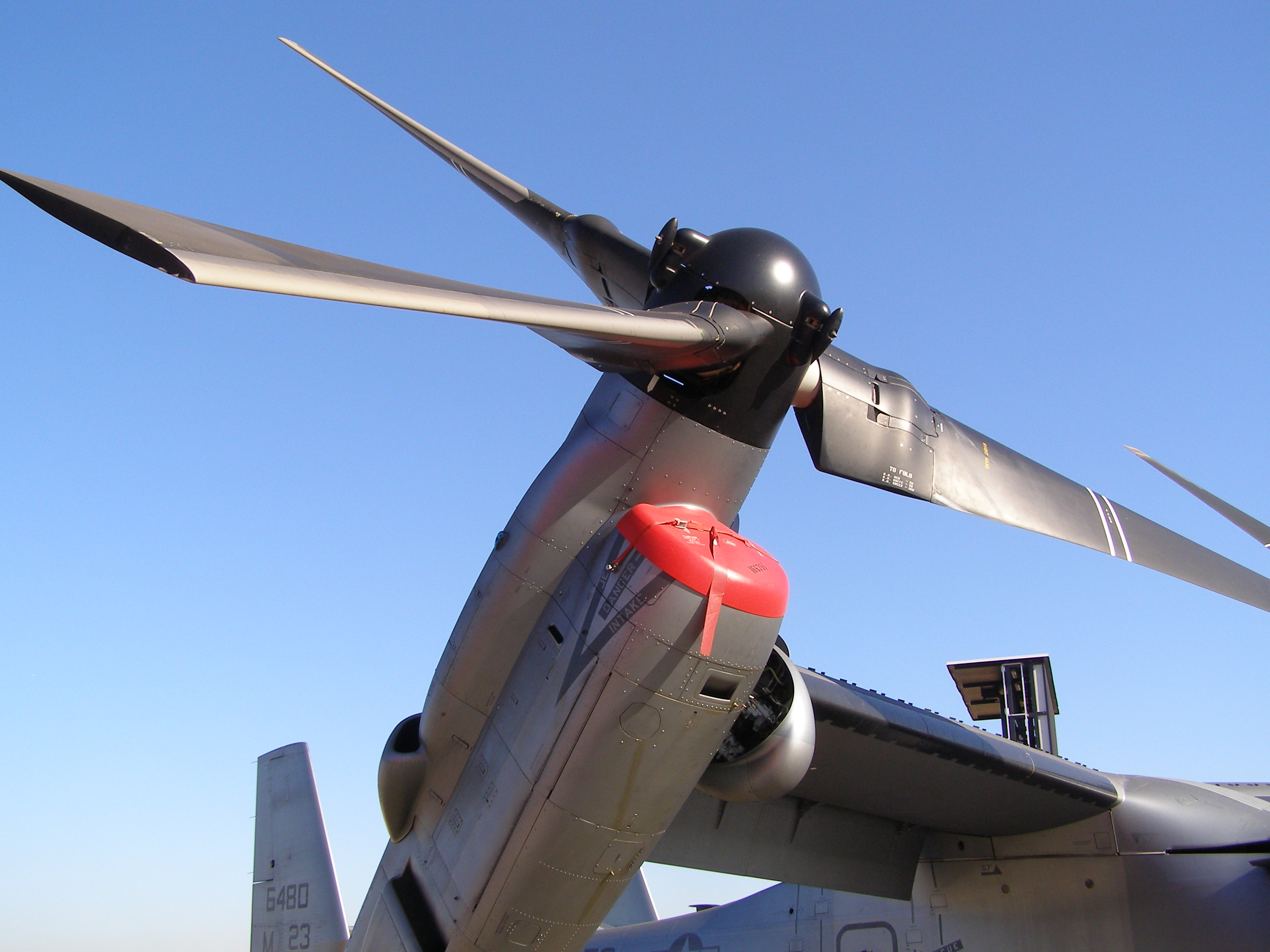 United States Marines MV-22B 166480 on display at Farnborough Air Show 2006